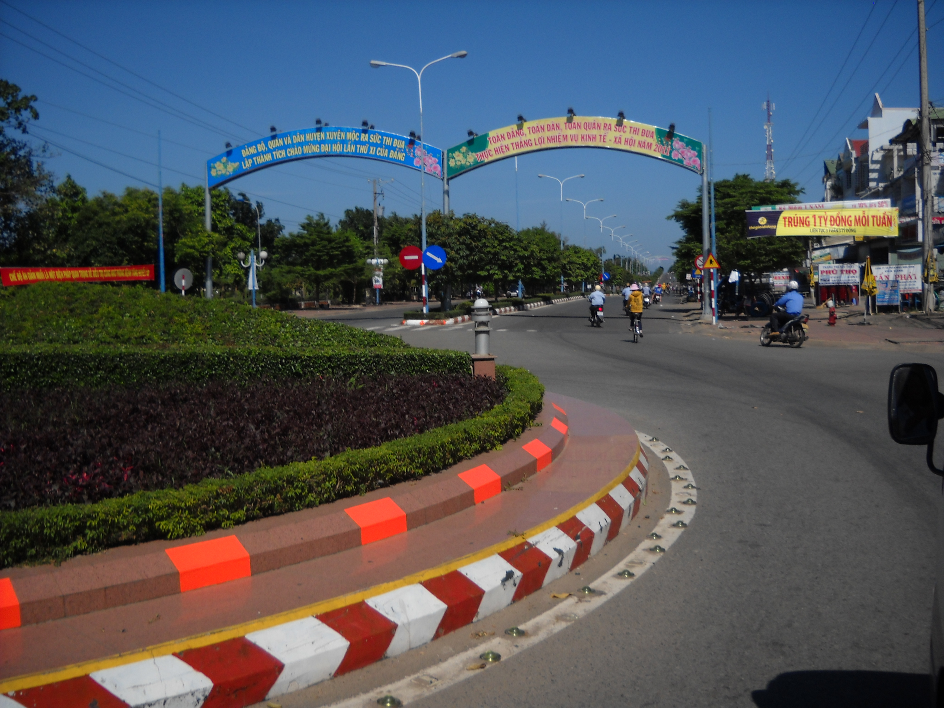 Phước Bửu town, Xuyên Mộc Distict, BR-VT Provice